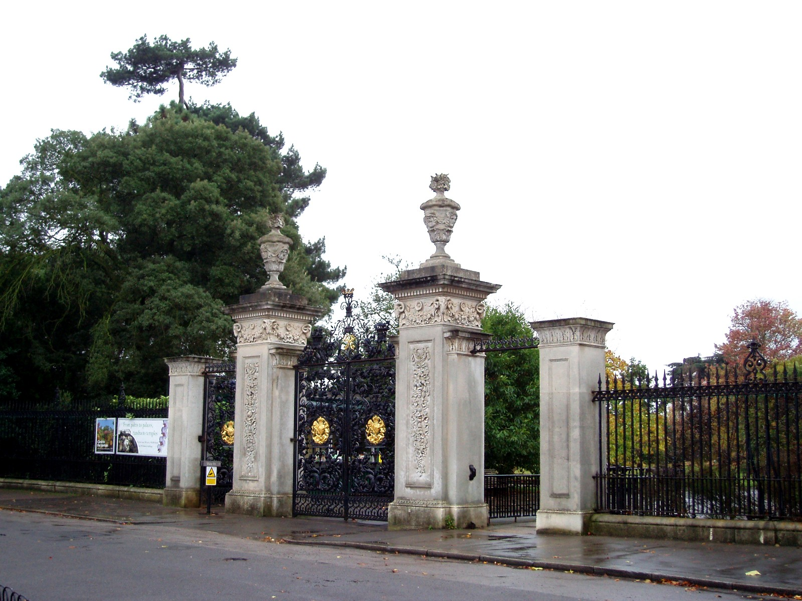 One of the Royal Parks, and also one of the best in London, though they really do charge you extra for it. Photo taken November 2008. Owner: the Crown (in the London Borough of Richmond upon Thames).